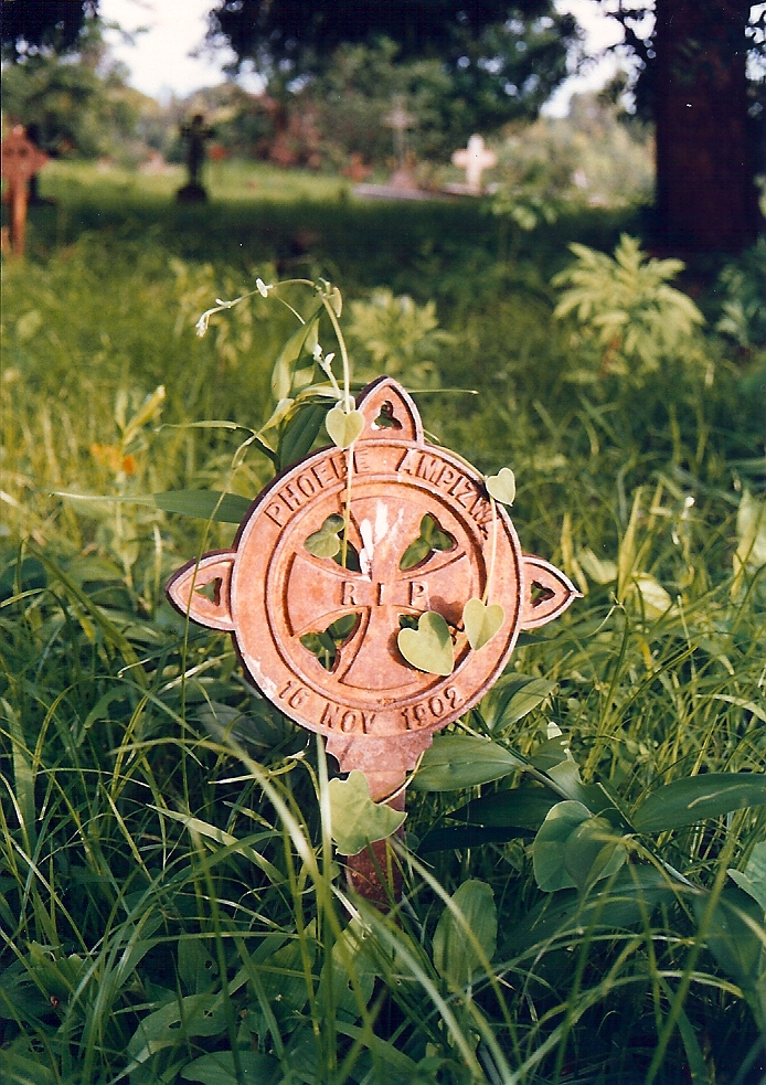 Cast iron cross in Christian cemetery in Nkhotakota, eastern Malawi. The inscription reads "Phoebe Ampizwa RIP 16 November 1902". Taken January 1997 on film.